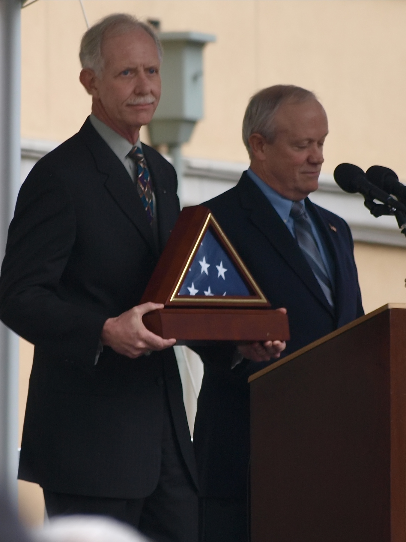 Congressman Jerry McNerney presents Chesley Sullenberger with a framed flag, as part of a January 24, 2009 celebration honoring the pilot in his hometown of Danville, California. Sullenberger was the pilot of US Airways Flight 1549, which successfully ditched into the Hudson River with no loss of life.